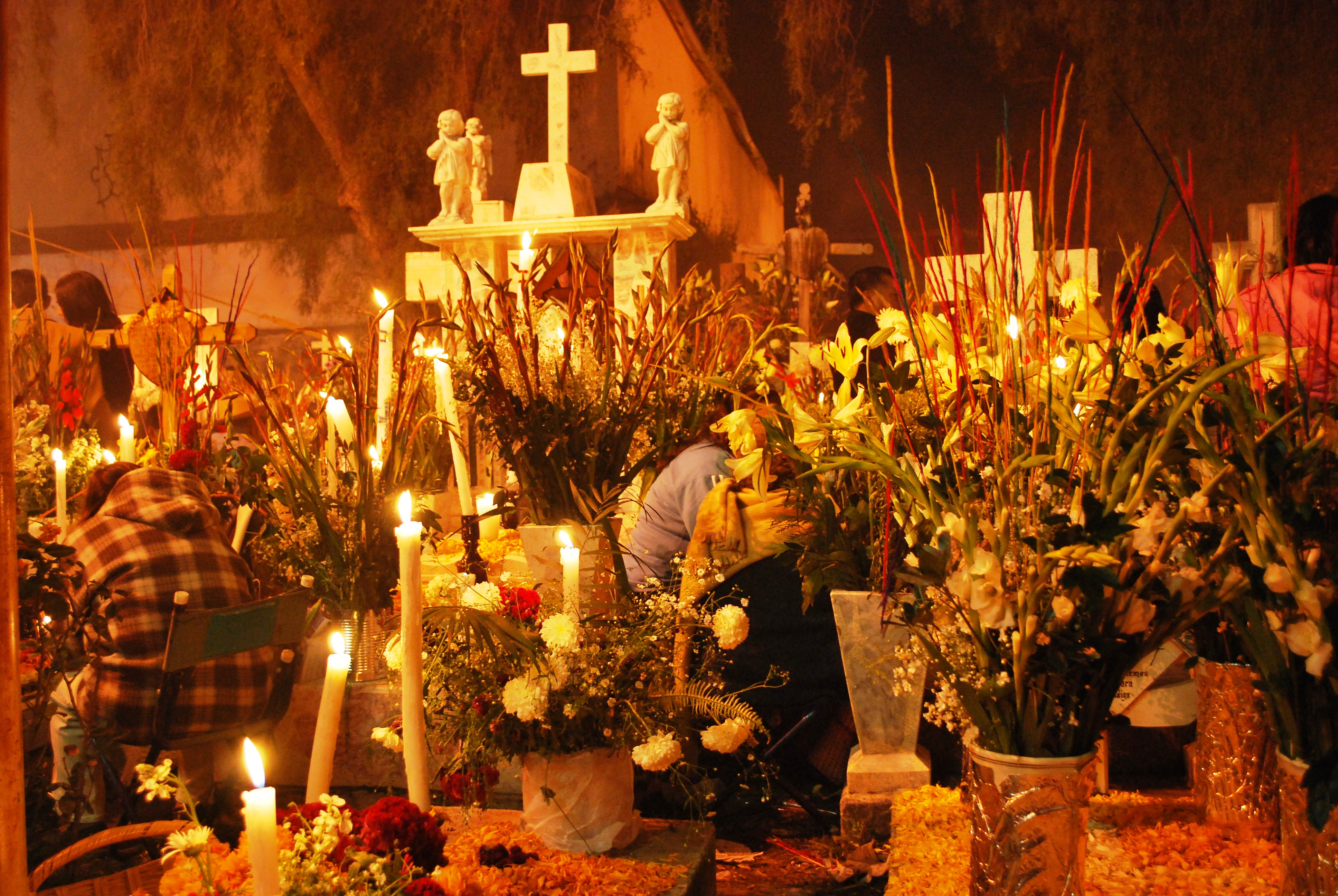 Scene during the Alumbrada portion of Day of the Dead in San Andres Mixquic, Mexico City